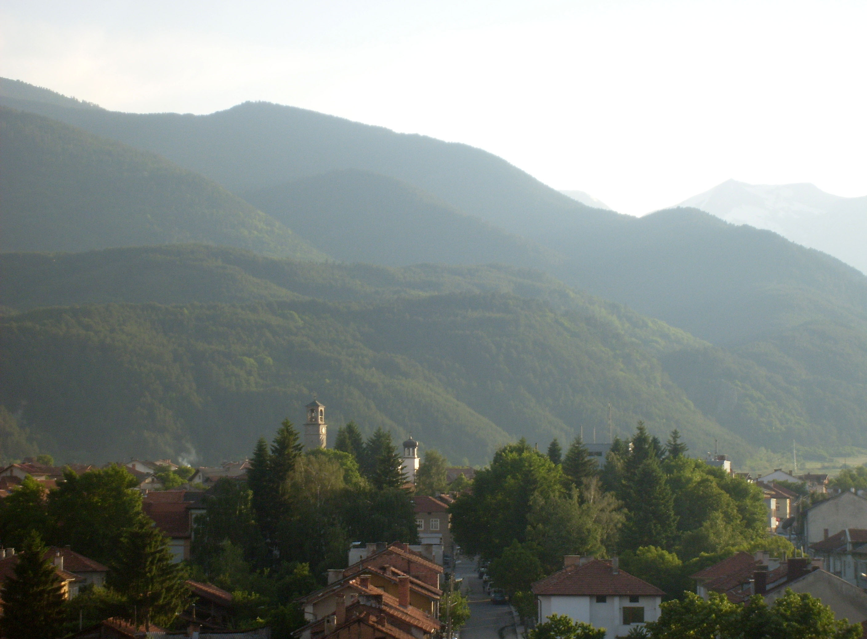 Overview of Dobrinishte, Blagoevgrad Province, Bulgaria